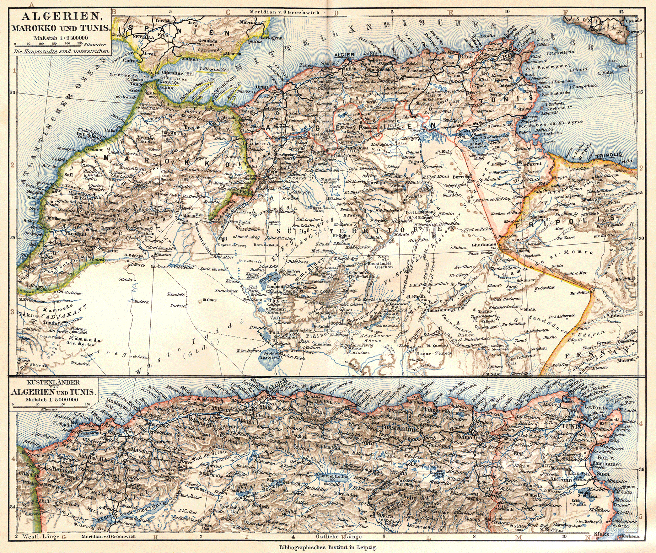 Algeria, Morocco and Tunisia (1905)